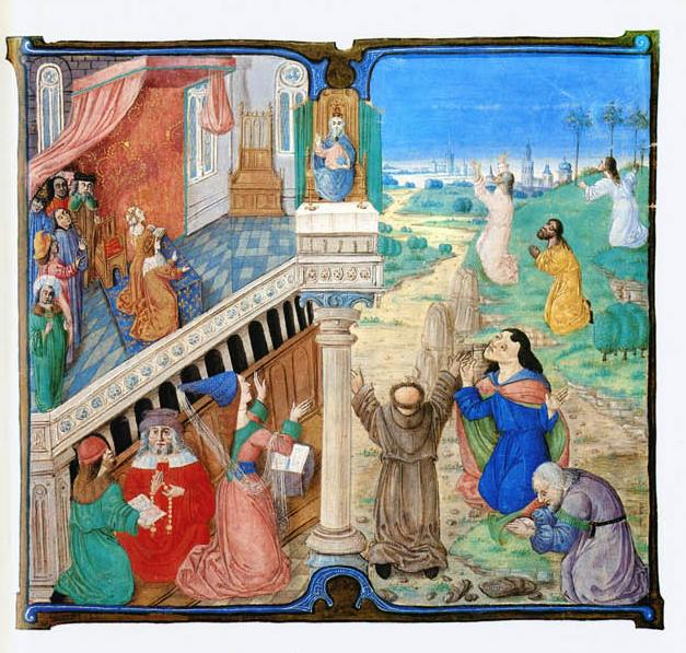 King Matthias Corvinus of Hungary. Image from the Graduale made in the second half of the XV century in Hungary.